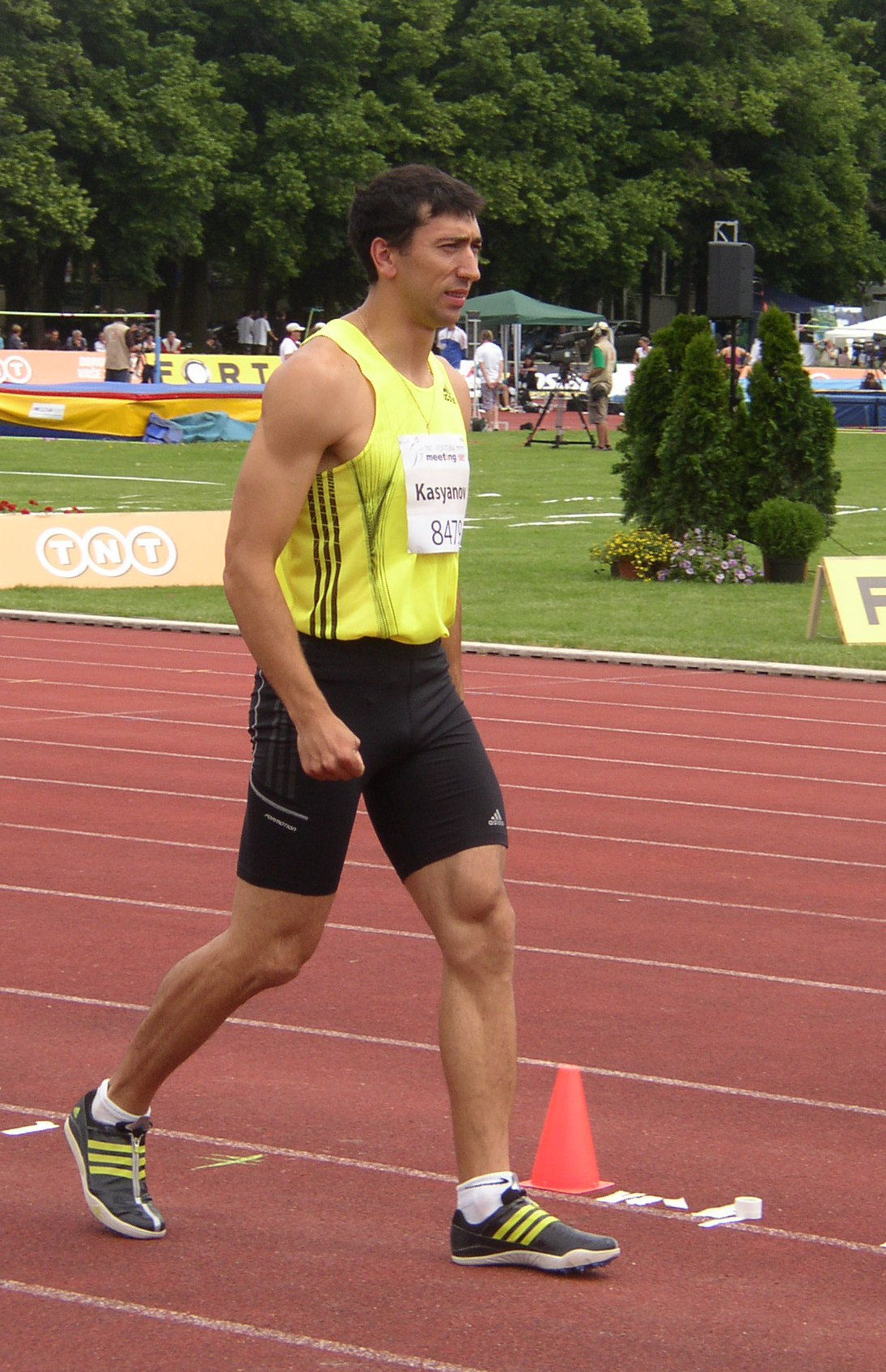 Athlete Oleksiy Kasyanov of Ukraine prepares for his attempt in long jump during men's decathlon at 4th edition of the TNT - Fortuna Meeting (IAAF World Combined Events Challenge Meeting, Sletiště Stadium, Kladno, Czech Republic, 15 June 2010, 13:14). Kasjanov scored 8381 points and won the event.